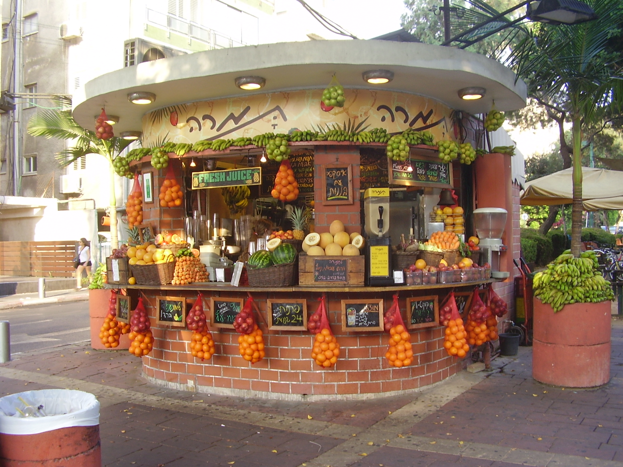 Fruite juice kiosk in Tel Aviv